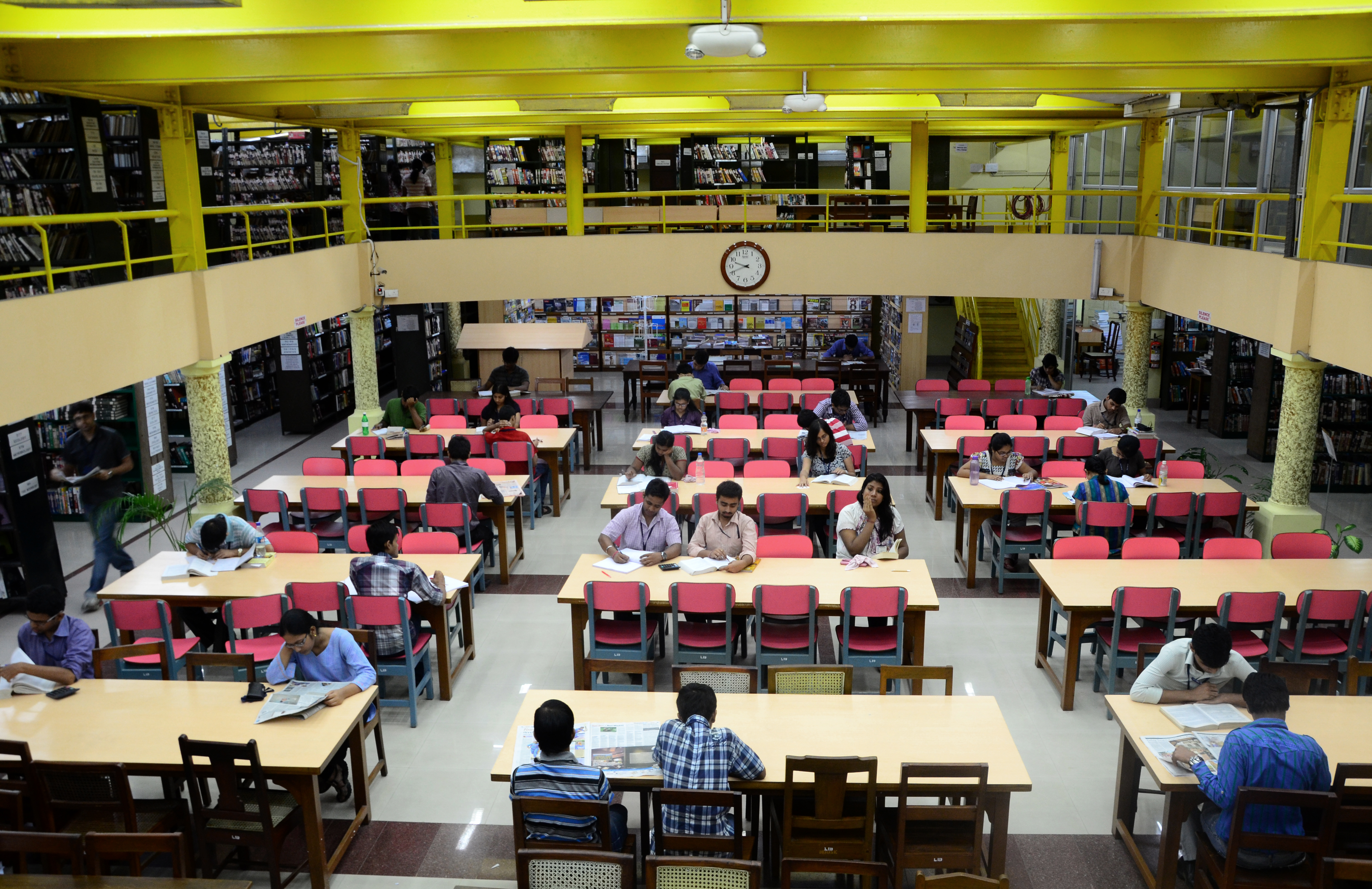 library at St.Xaviers College' Kolkata